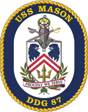 Coat of arms image for USS Mason (DDG-87) from original file on USS MASON (DDG-87) page listed on U.S. Naval Ships Coats of Arms page at the United States Army Institute of Heraldry (United States Army Institute of Heraldry) website.